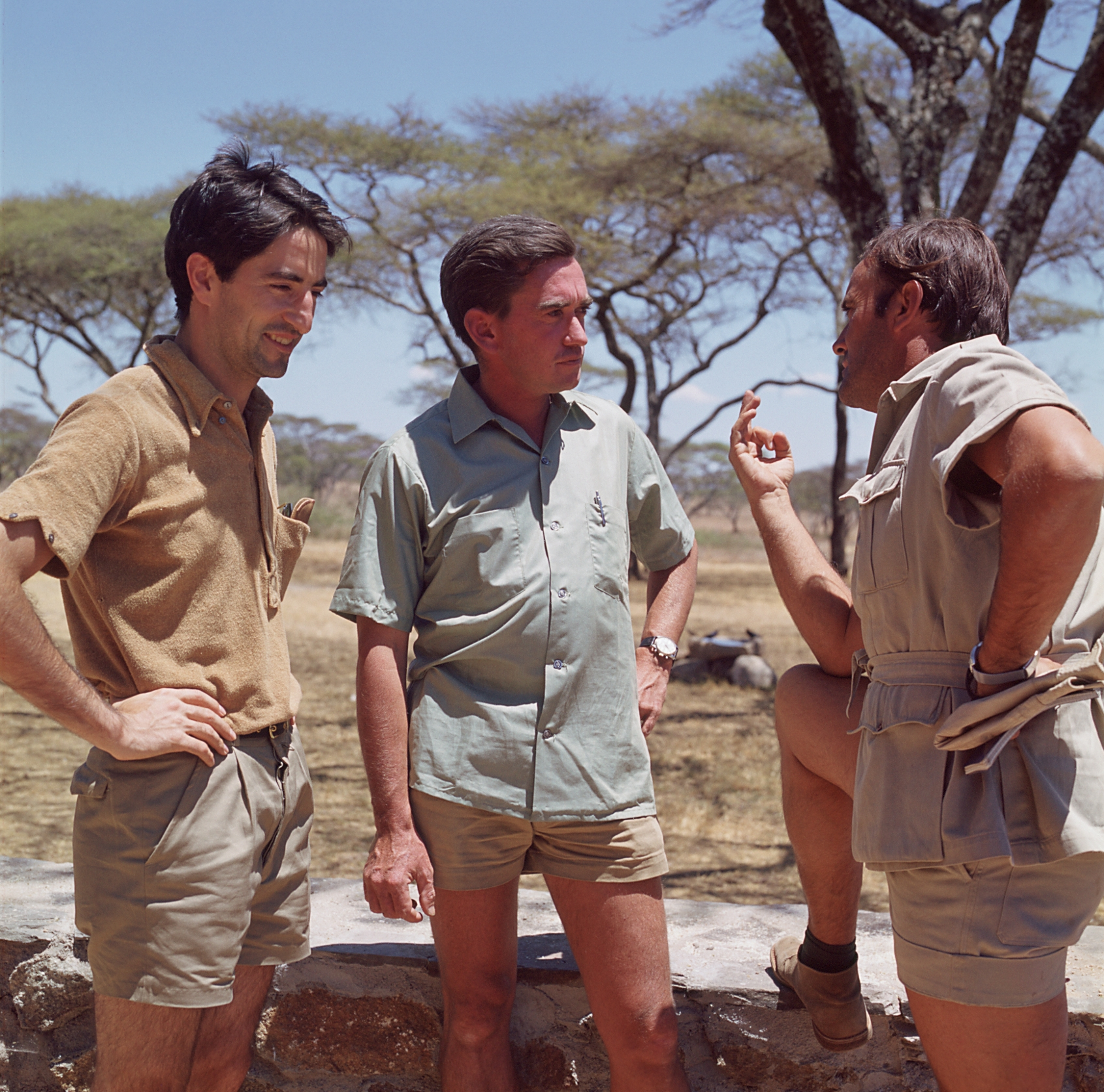 Philosopher Jesús Mosterín and naturalists Hugo van Lawick and Félix Rodríguez de la Fuente observing the African wild dogs (Lycaon pictus) in the Serengetti in August 1969.